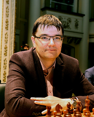 Evgeny Tomashevsky at Superfinal of the Russian Chess Championship, Satka, 2018